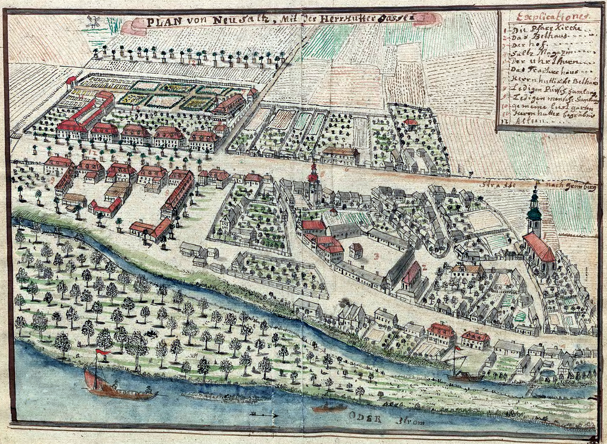 View of the city of Nowa Sól.